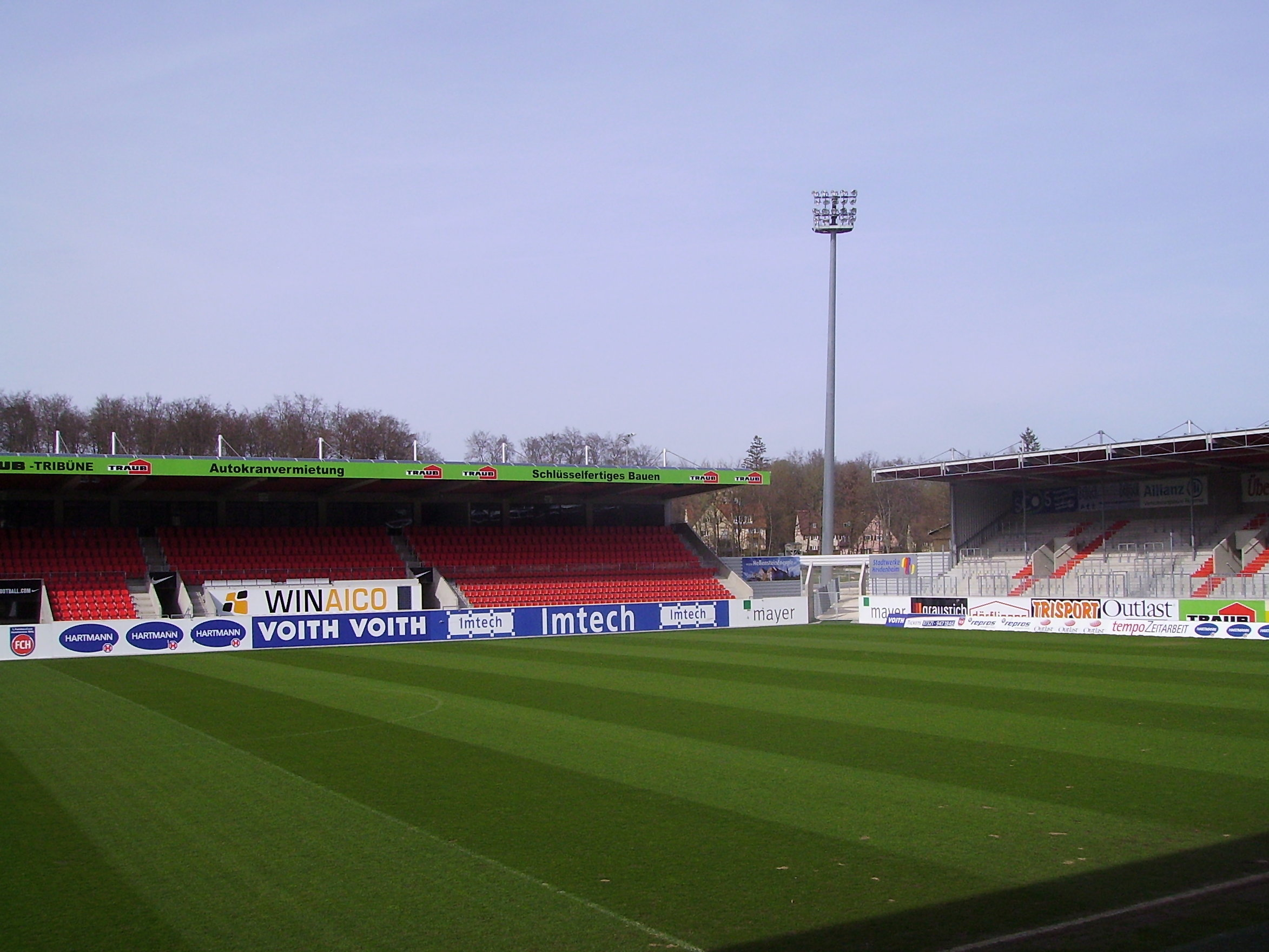 Voith-Arena